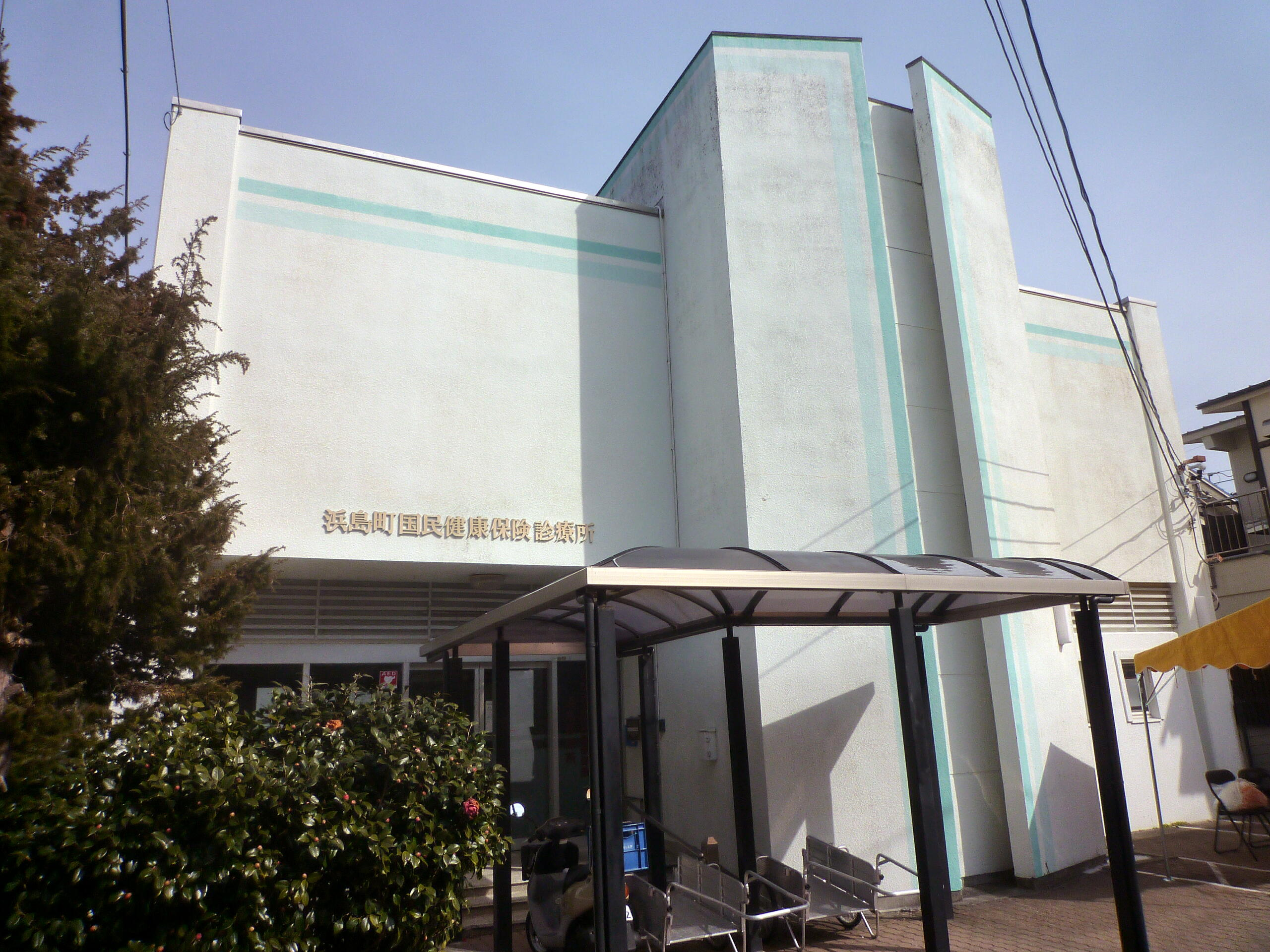 The "Shima Municipal National Health Insurance Hamajima Clinic" in Hamajima-chō-Hamajima, Shima City, Mie Prefecture, Japan.